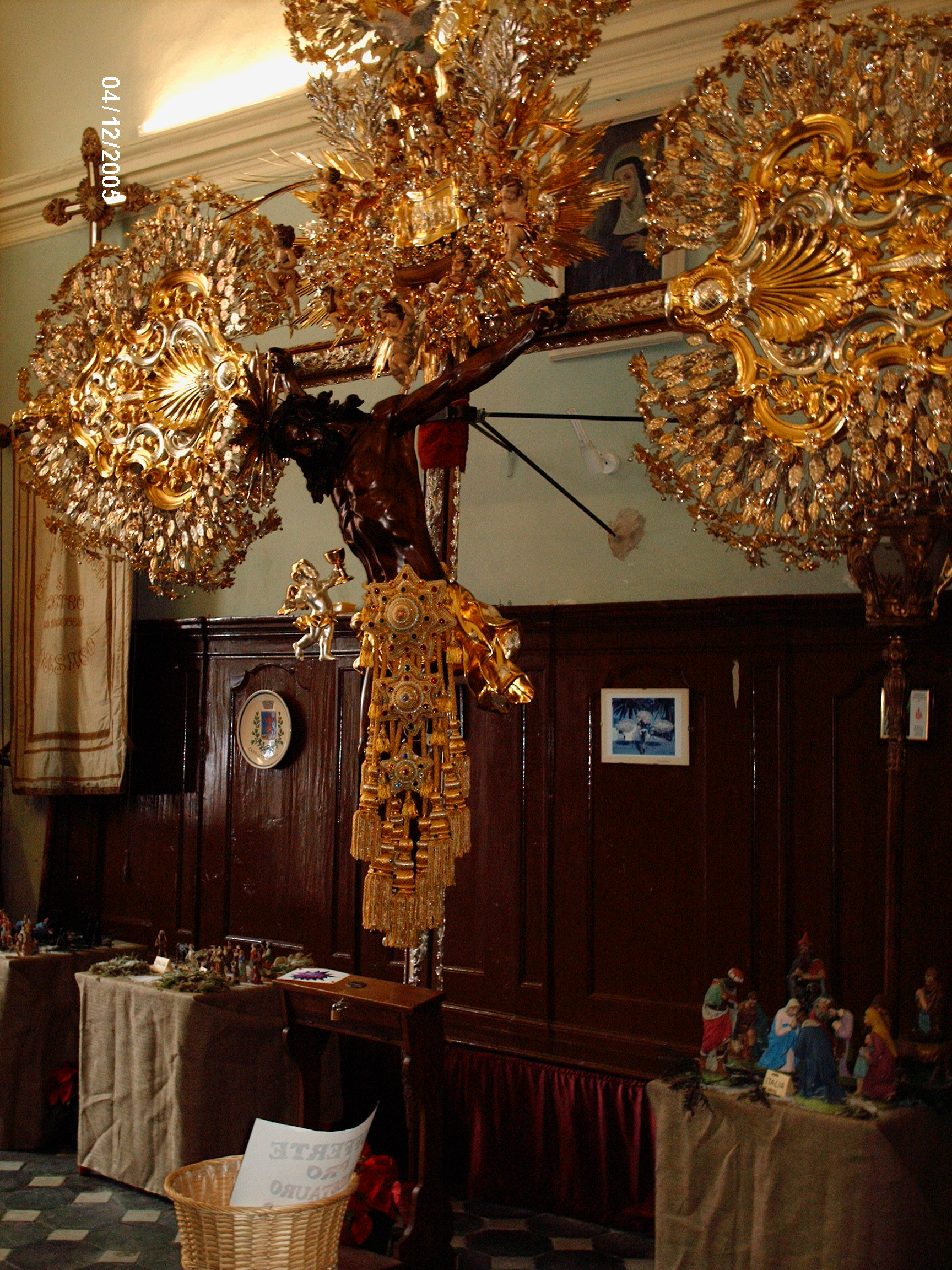 Statue of the moorish Christ of Boissano